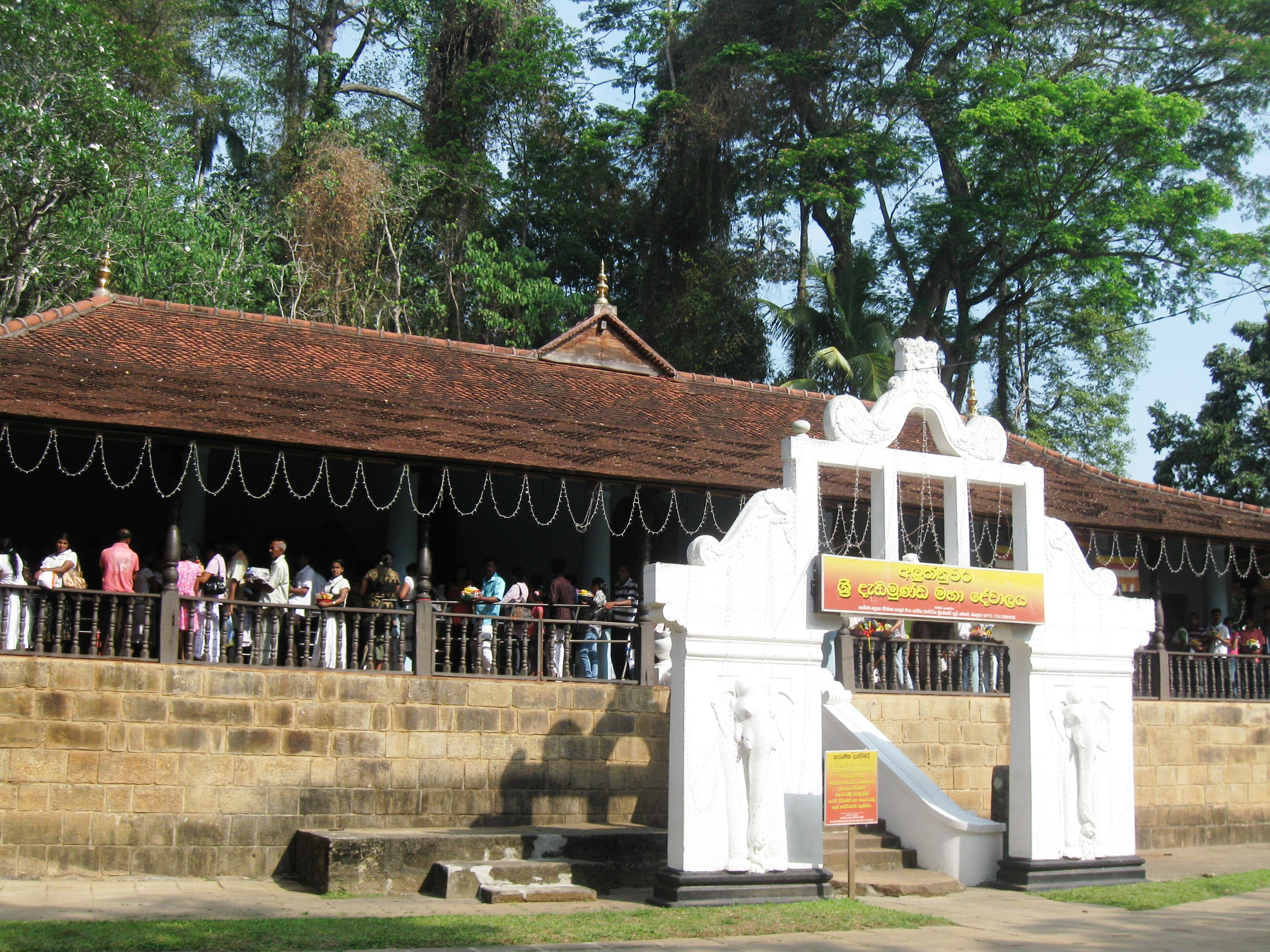 Photograph of Dedimunda Devalaya, Aluthnuwara, Sri Lanka.